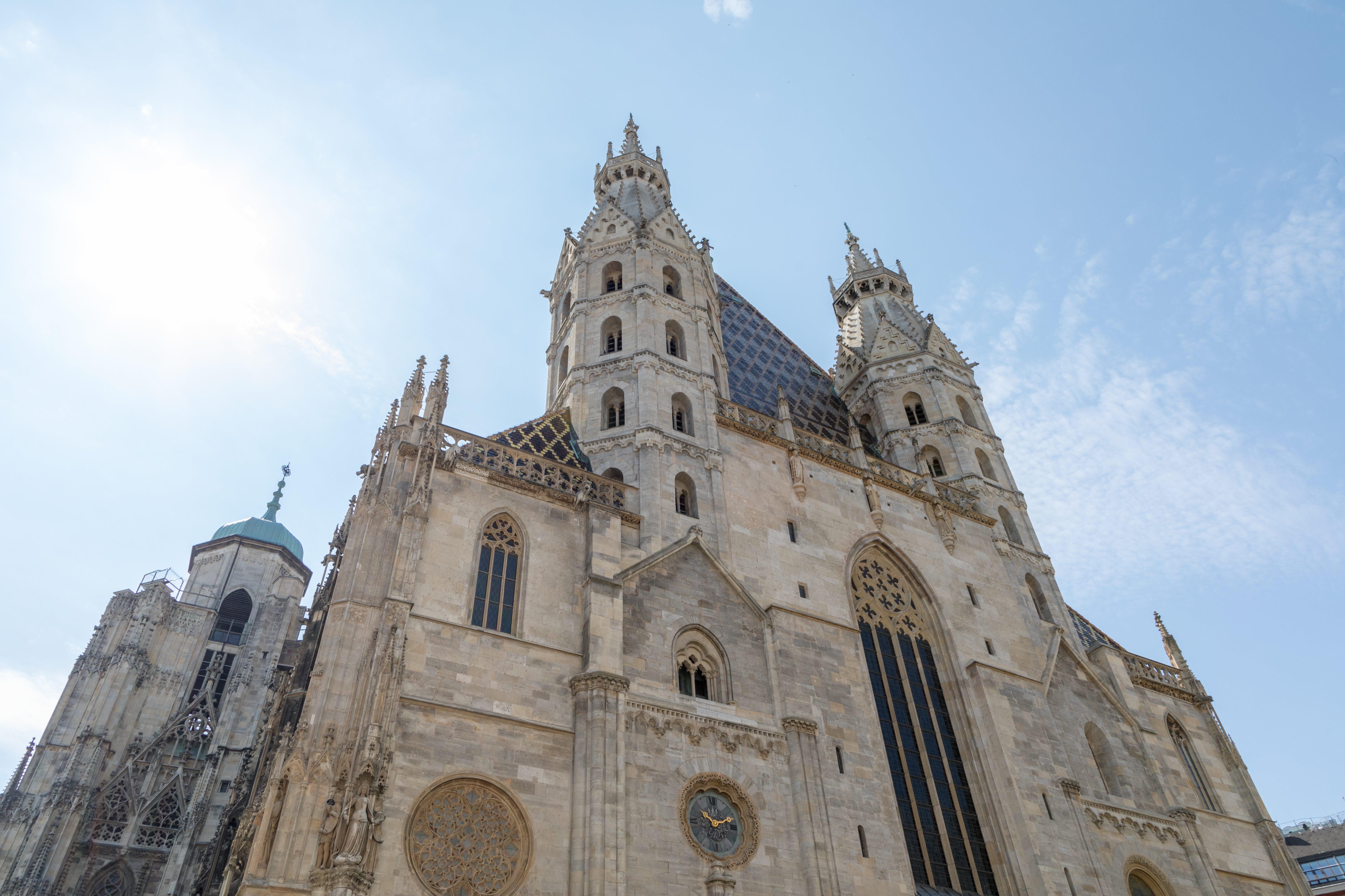 St. Stephen's Cathedral, Vienna, Austria